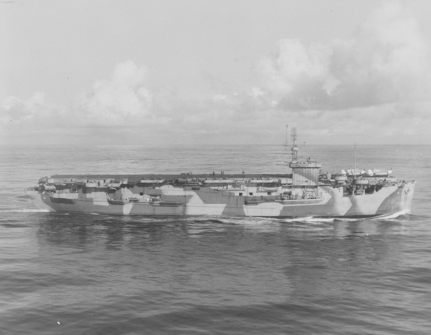 Aerial photo of Card taken by Bailey, D.T., ARM 3/c, USN." Taken from blimp K-20 from squadron VC-55.